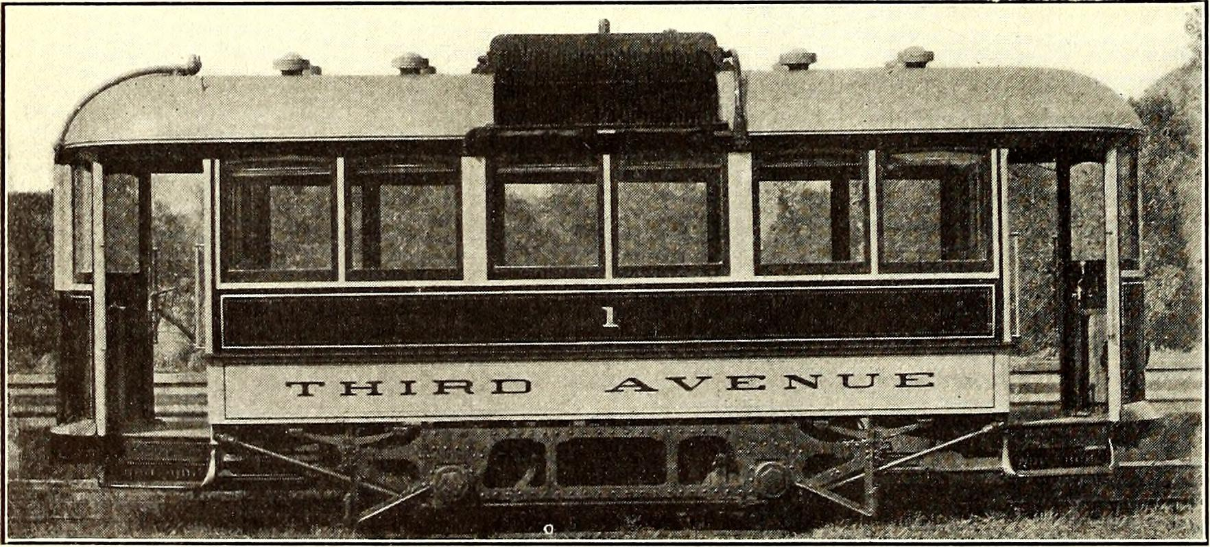 Title: Electric railway journal Year: 1908 (1900s) Authors: Subjects: Electric railroads Publisher: (New York) McGraw Hill Pub. Co Text Appearing Before Image: GASOLINE-ELECTRIC CAR FOR THE THIRD AVENUERAILROAD, NEW YORK The Third Avenue Railroad Company, at the suggestionof F. W. Whitridge, receiver, has begun experimentaloperation of a gasoline-electric car to determine the possi-bilities of this type of vehicle for the lines which it nowoperates by horse traction. The car, which was built by Text Appearing After Image: Third Avenue Railroad Gasoline-Electric Car the General Electric Company, was received on Oct. 25and is now in service on the 125th Street cross-town linewhere it is being operated on the same schedule as theelectric cars which are running on this route. The 125thStreet line is 2.1 miles long, and in this distance from15 to 21 stops are made in each direction. The round-trip running time is 30 to 33 minutes and the headway is Gasoline Engine and Generator Unit much sooner than if the experimental runs were made onthe lightly patronized routes for which self-propelledvehicles may ultimately be used. The specifications underwhich this car was purchased state that it should be capableof running on a 5 per cent grade and when on level trackmaintain a schedule speed of 8 m.p.h. with 10 stops permile. These conditions have been met easily; in fact,shortly after the car was received it was run successfullyon Amsterdam Avenue up an 8 per cent grade about 1000ft. long. As shown in the accompan